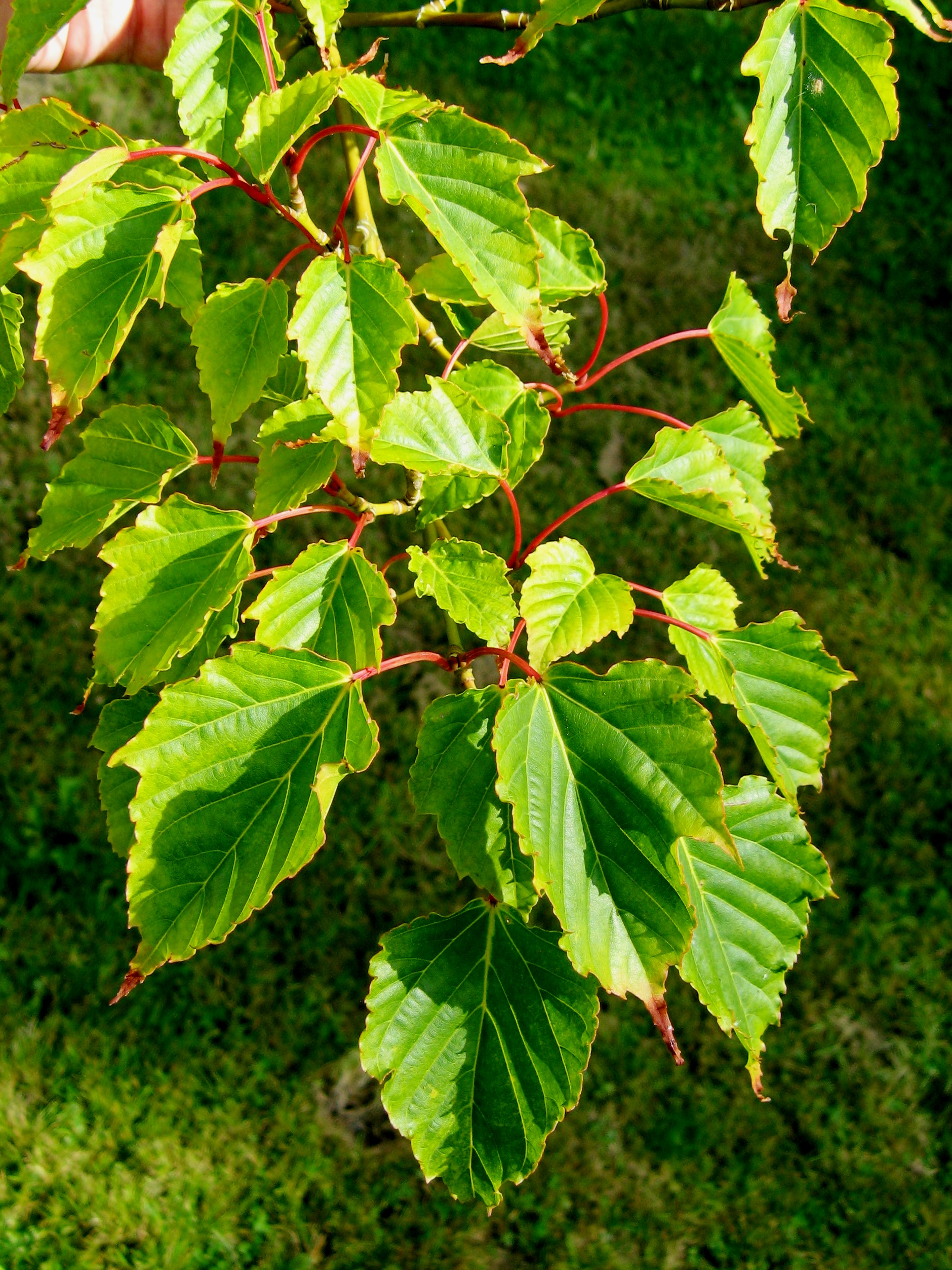 Photo of the foliage of Acer morrisonense, taken at the Ventnor Botanic Garden, Isle of Wight, UK